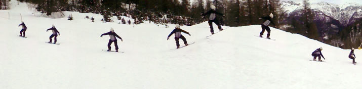 ActionShot of Ski